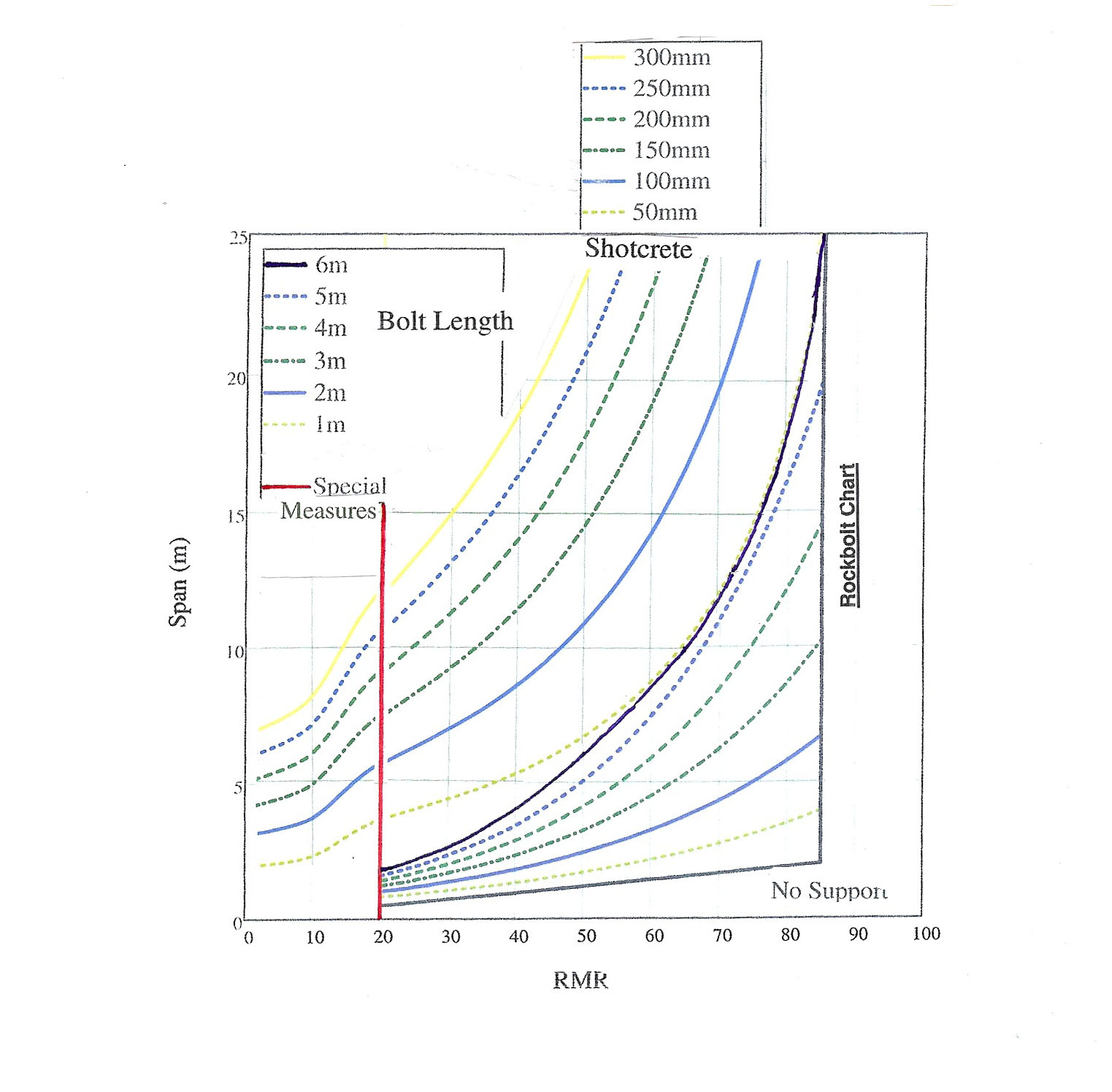 Enables determination of rock bolt lengths and shotcrete thickness